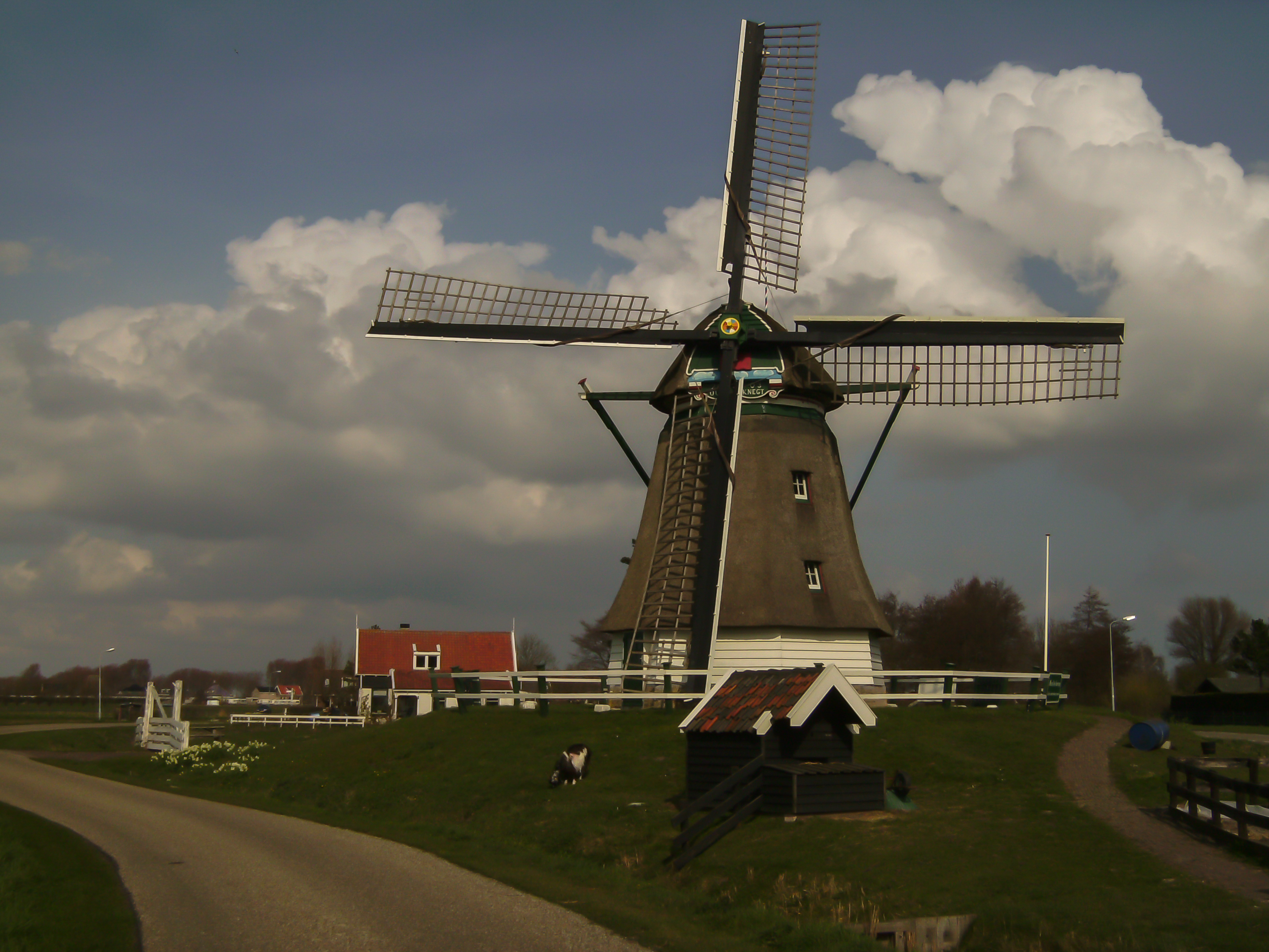 Akersloot, windmill: De Oude Knegt